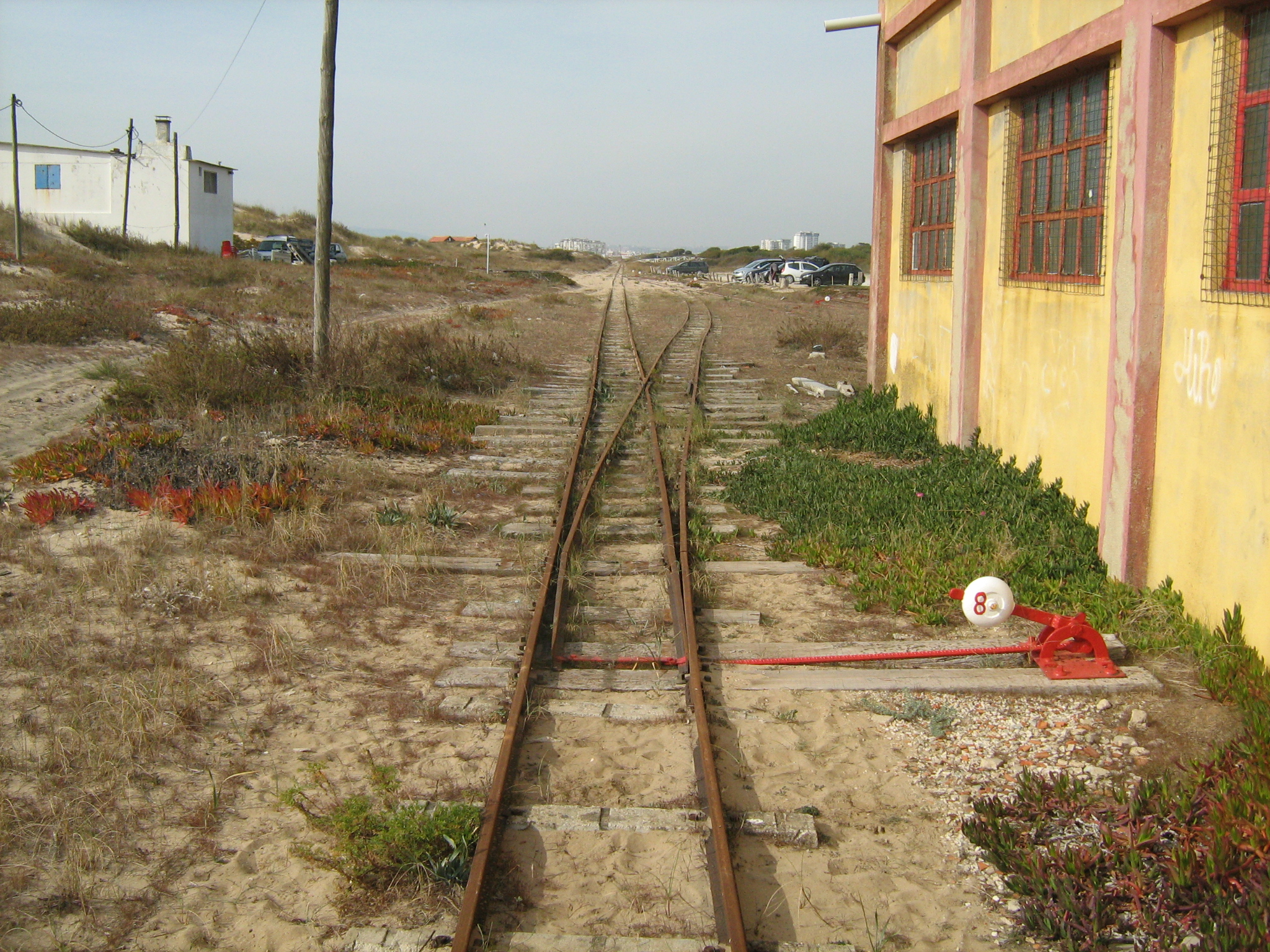 Decauville railway junction from the Transpraia train in Costa da Caparica, Portugal